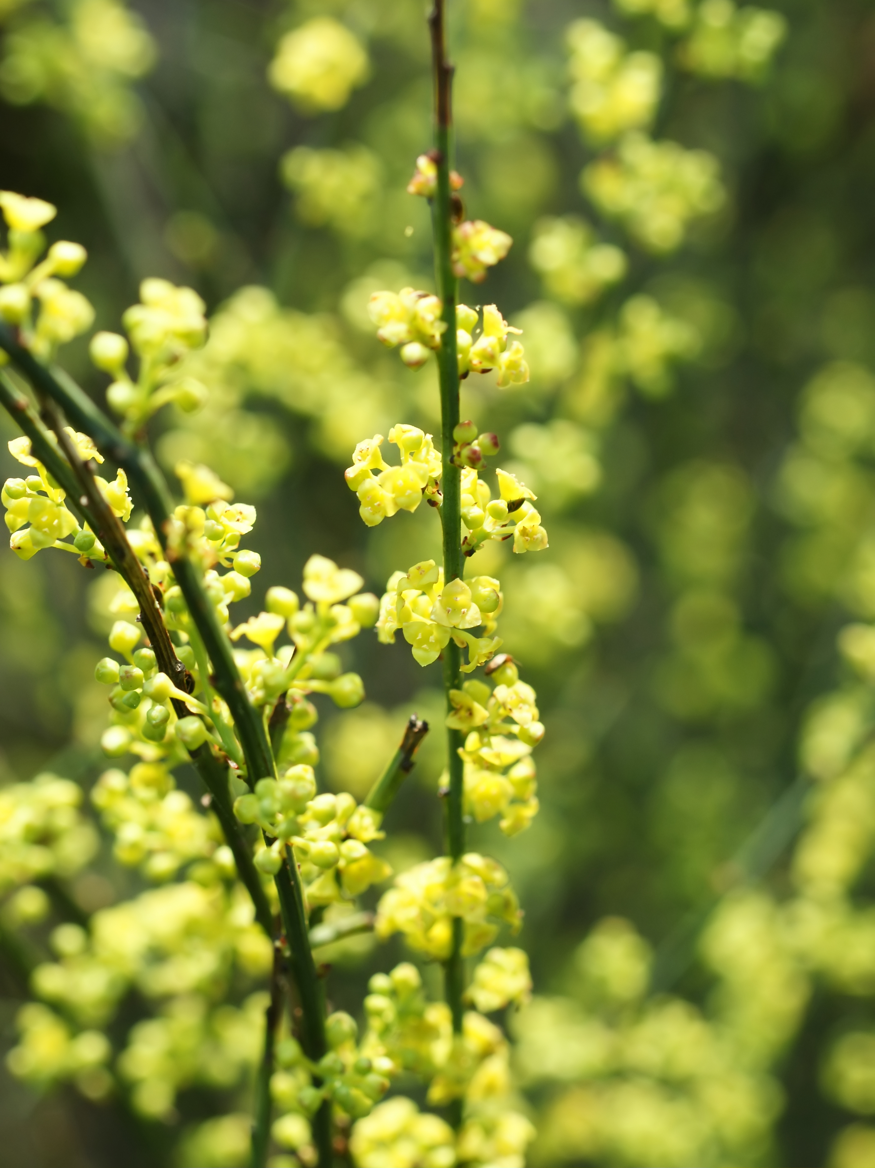 A semi-parasitic broom-like plant close to Torregrande, Sardinia, Italy